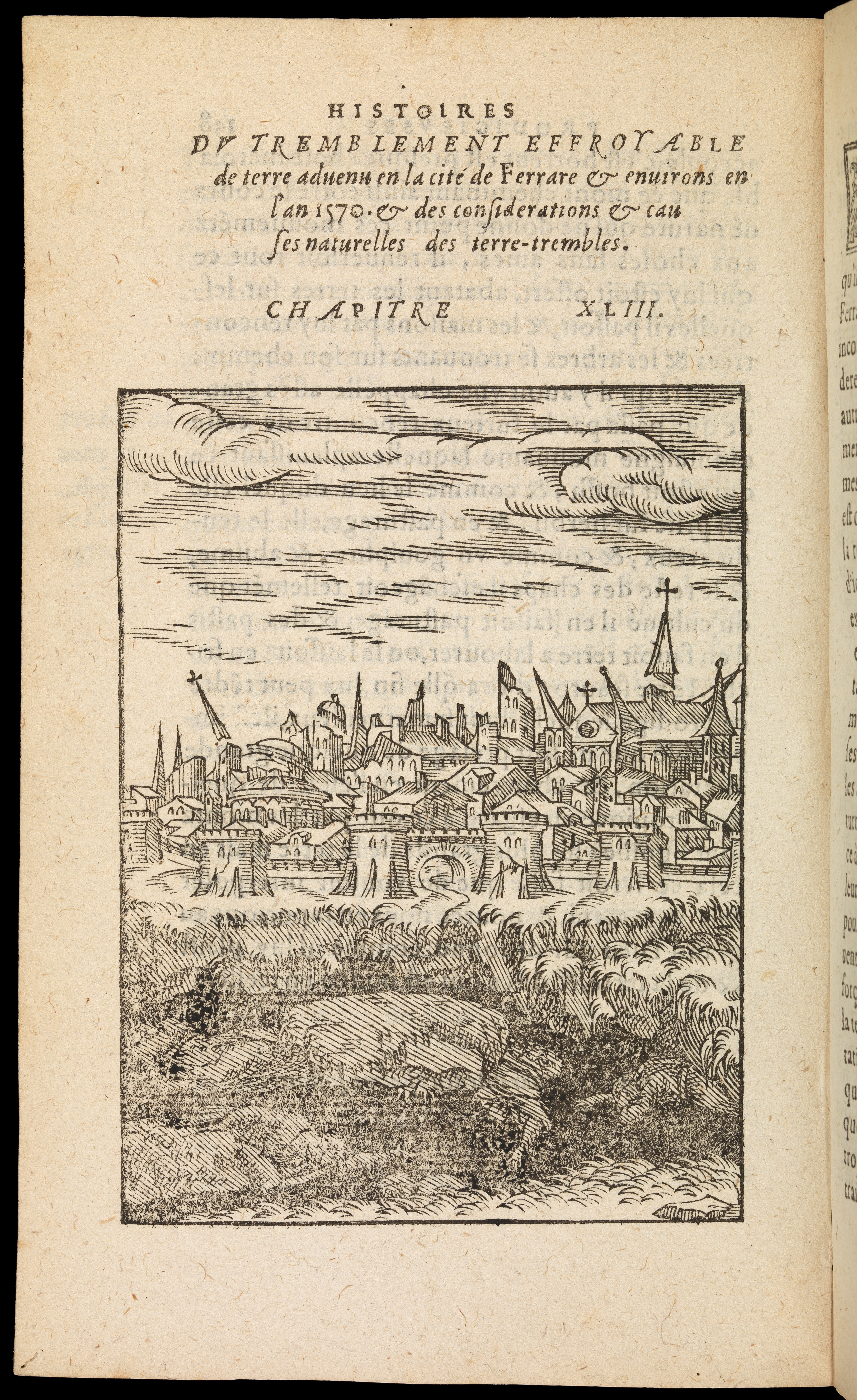 Drawing of an earthquake in Ferrara in 1570 Medical Photographic Library Keywords: Abnormalities, Severe Teratoid